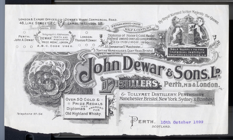 Dewars